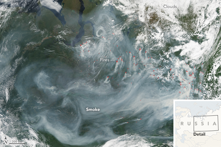 Fires and smoke in Siberia, July 19, 2016 from NASA imaging